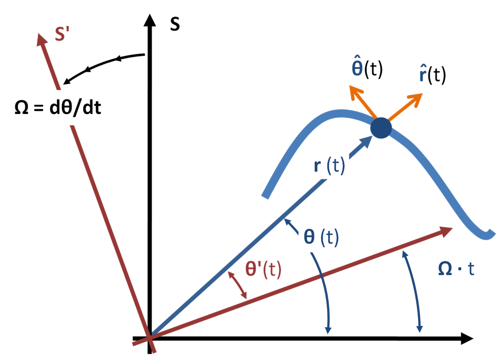 Frame of reference co-rotating with particle in planar motion